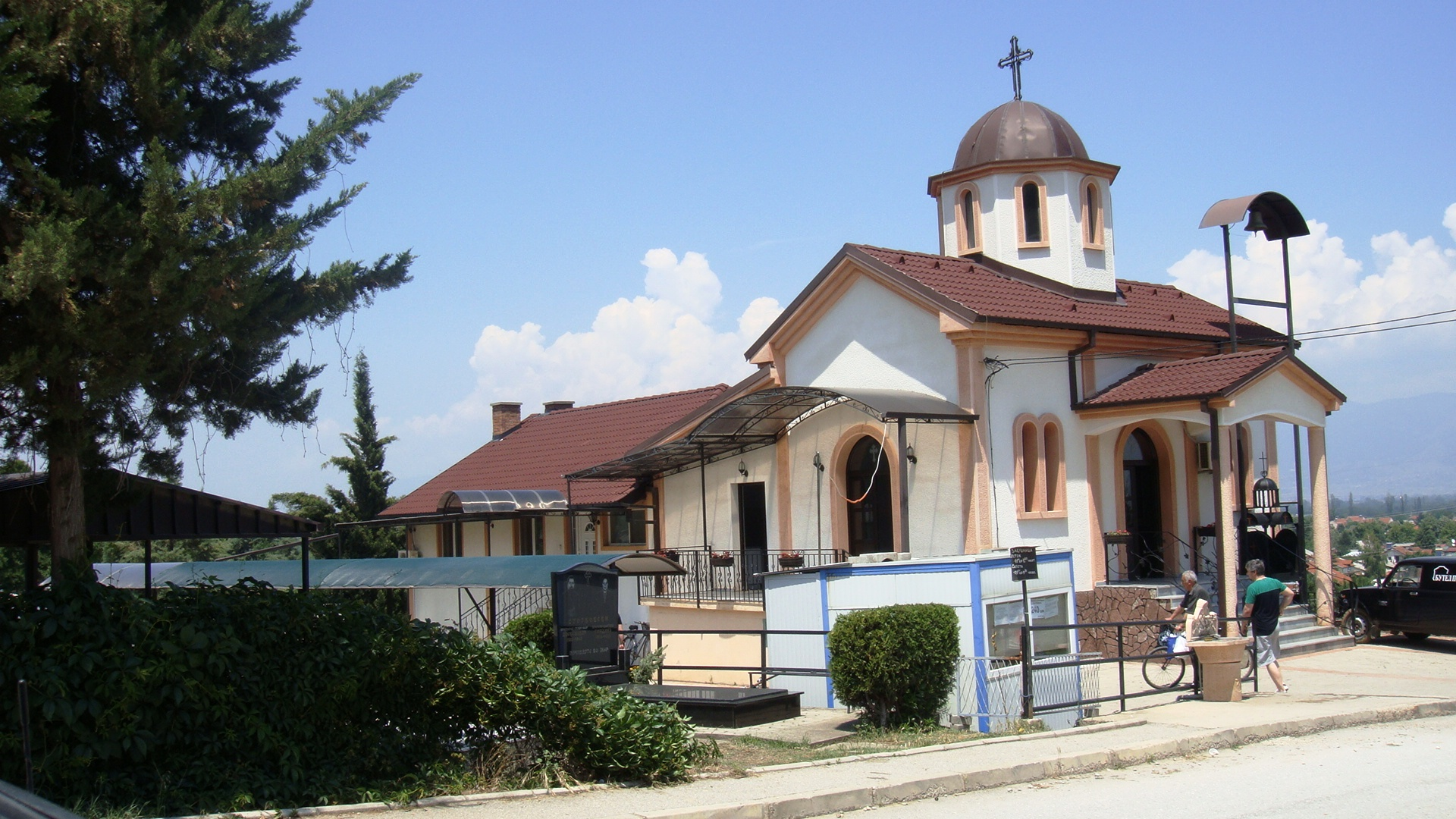 St. Lazarus Church in Dračevo, Macedonia. The church is near the Dračevo cemetery.